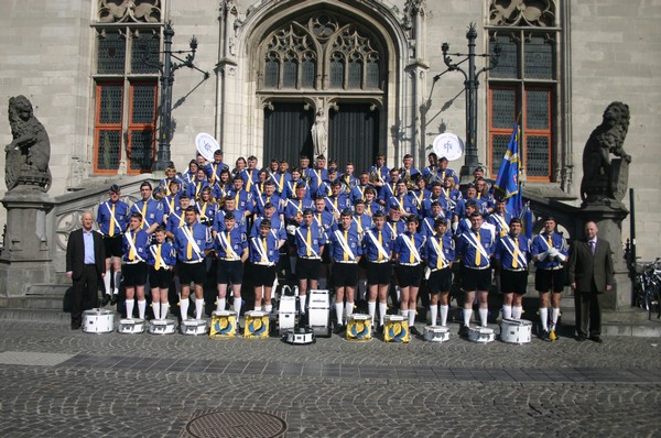 Muziekkorps Koninklijke Speelschaar S.F.X. Brugge